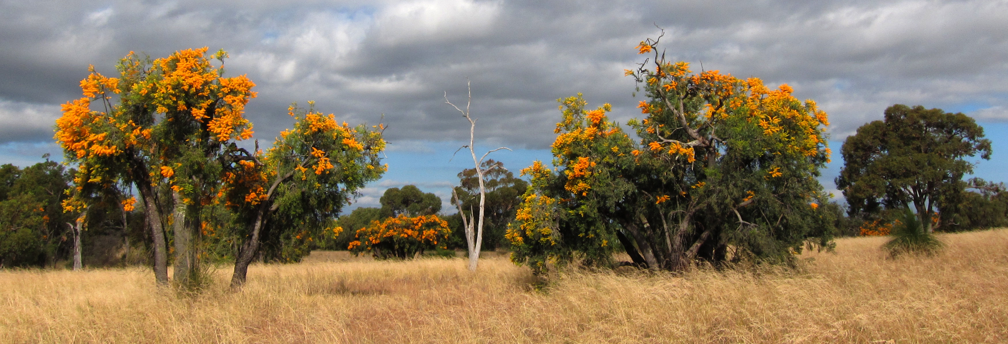 These beautiful flowers are parasites and flower here every year for Christmas. Nuytsia floribunda